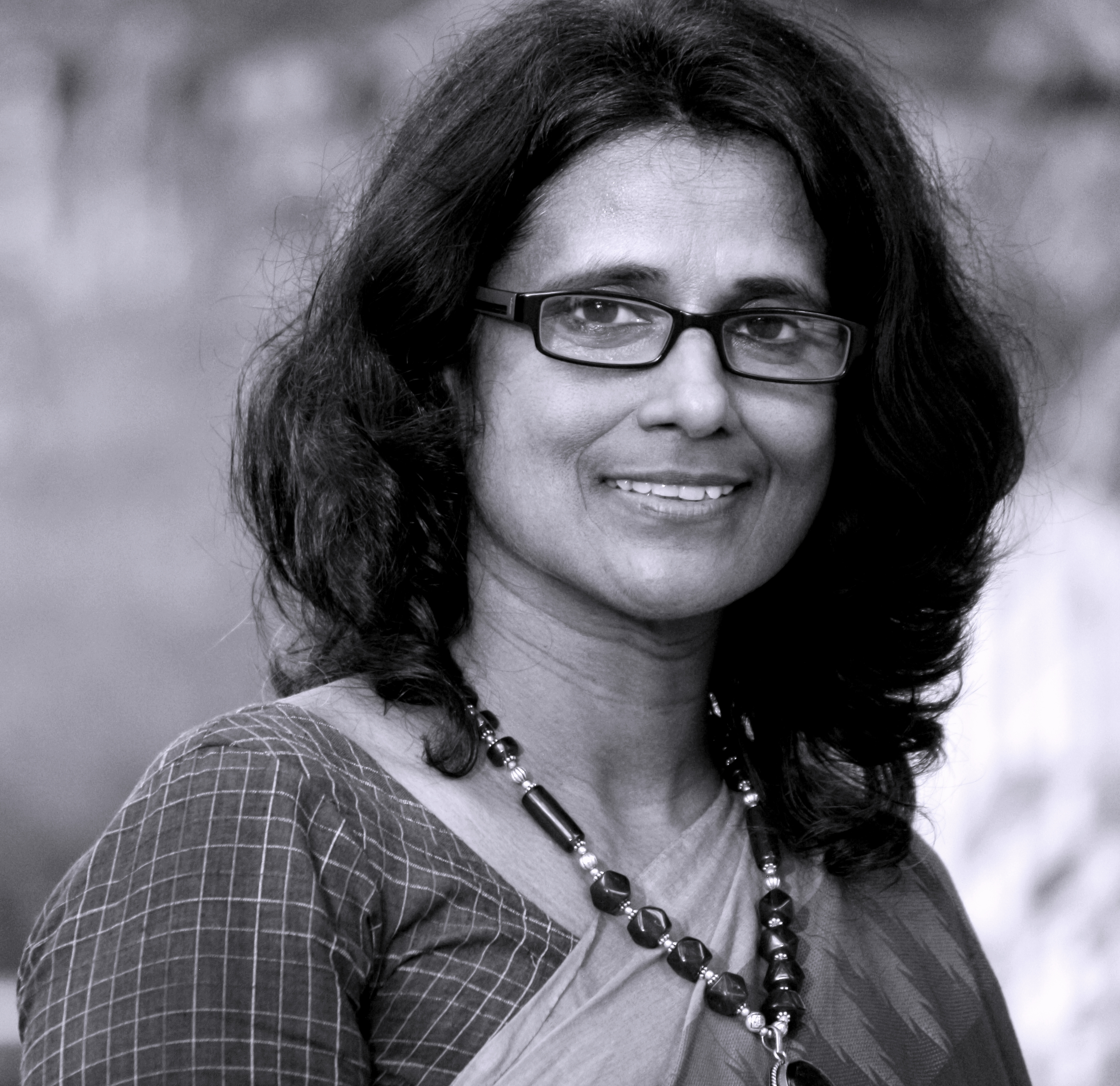 Photo taken at Kamala Surayya Smarakam, Punnayoorkkulam by Manoj Menon